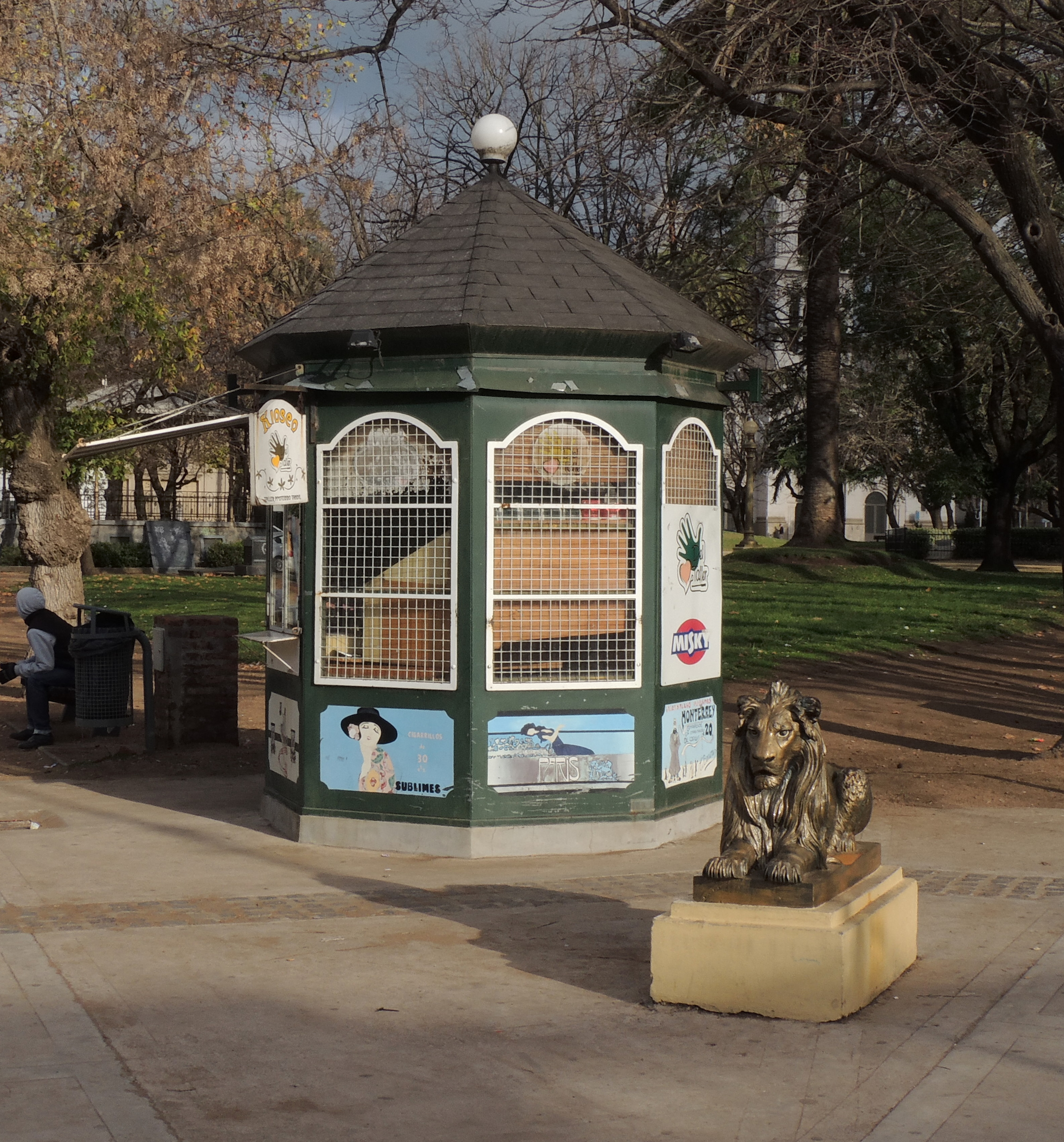 Kiosk on Plaza Independencia, Tandil, Argentina including a bronze lion sculpture casted in Fonderie du Val d’Osn, France